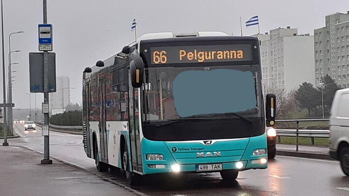 Bussiliin 66 Laagna teel